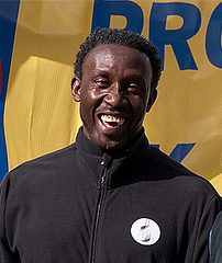 Linford Christie in Chinatown, Manchester